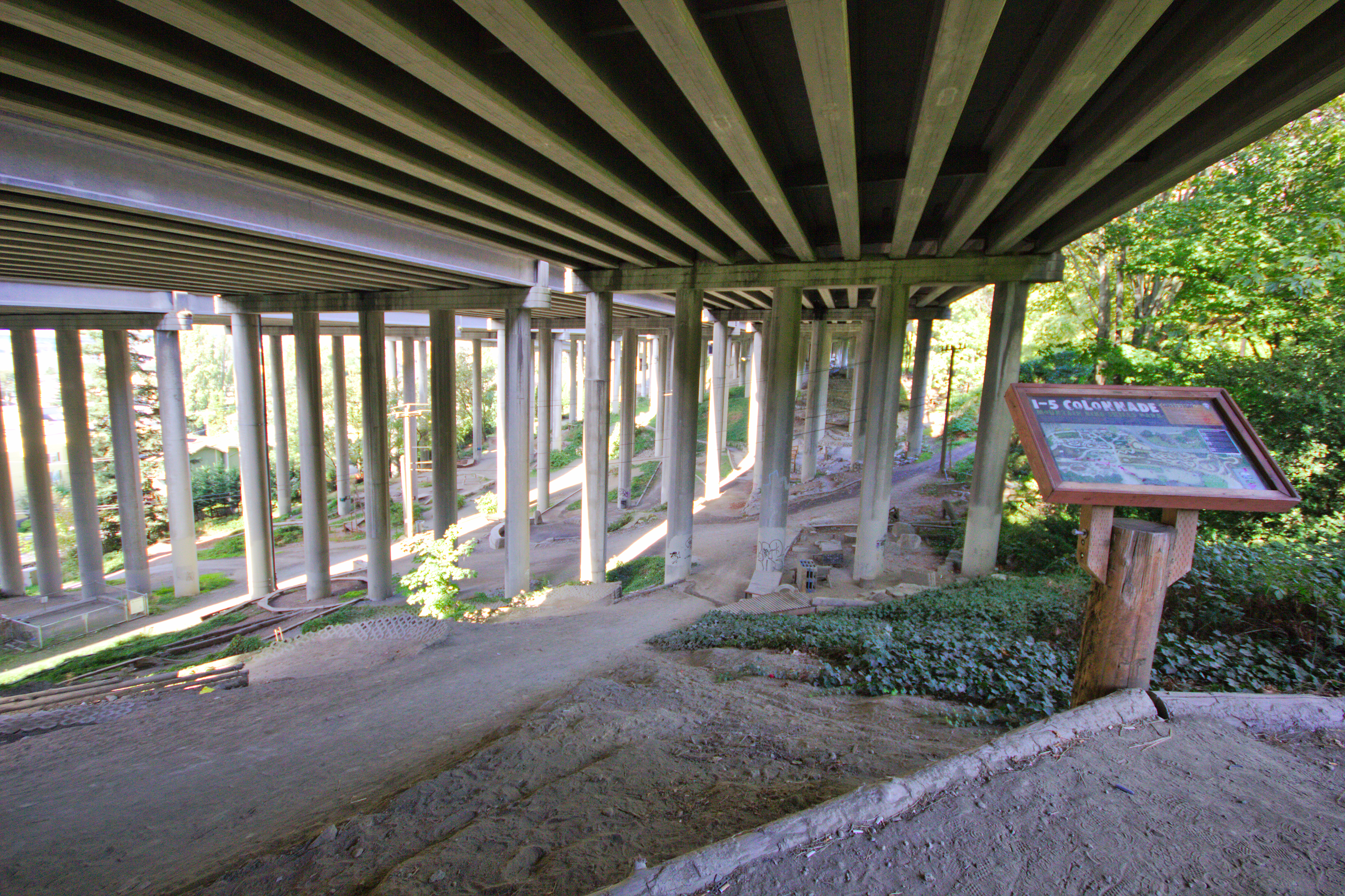 The I-5 Colonnade, beneath I-5 in Seattle, Washington